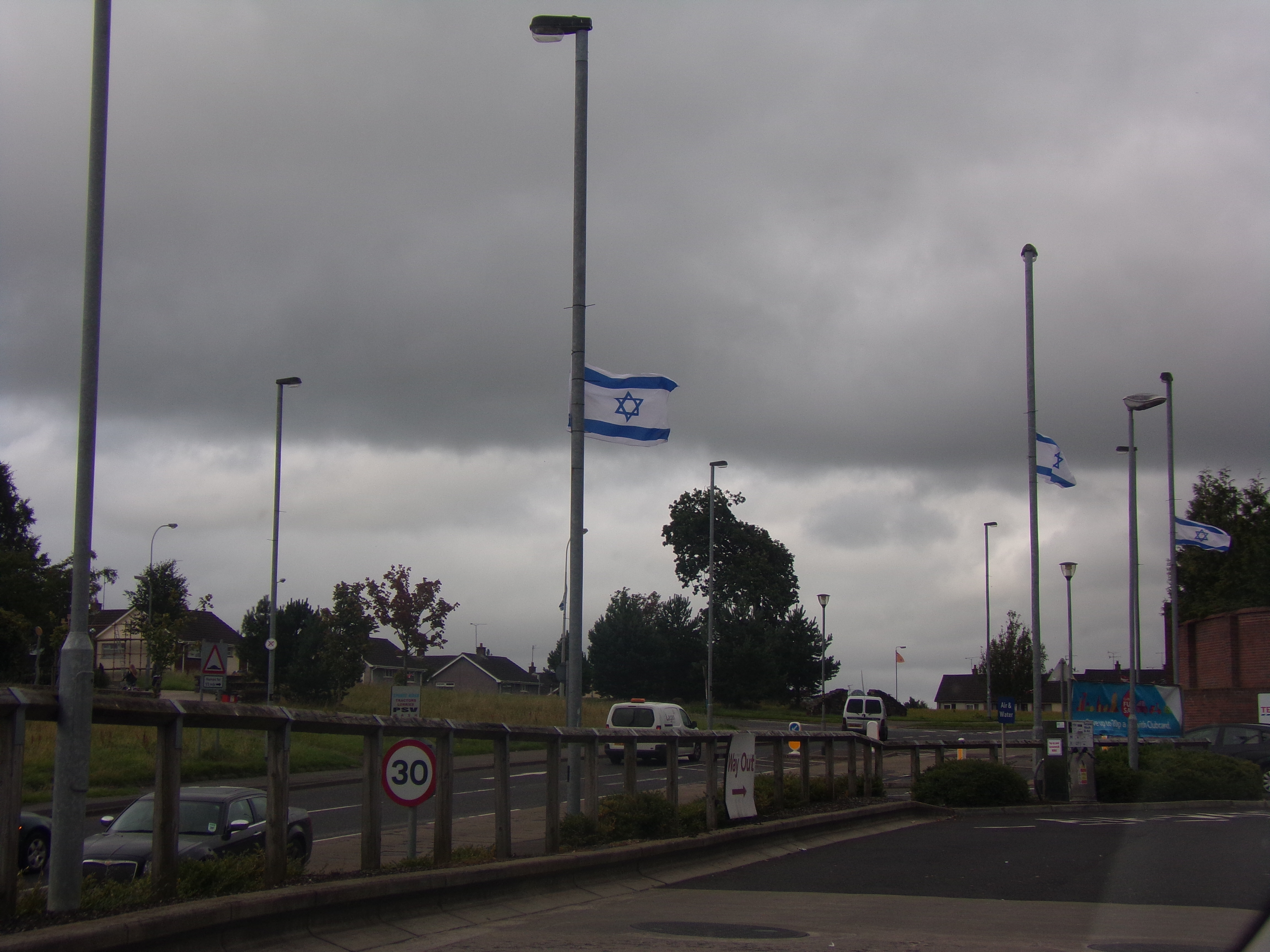 A row of Israel flags on the Crebilly Road area of Ballykeel, Ballymena.Loyalists fly these flags to show their support for the state of Israel.